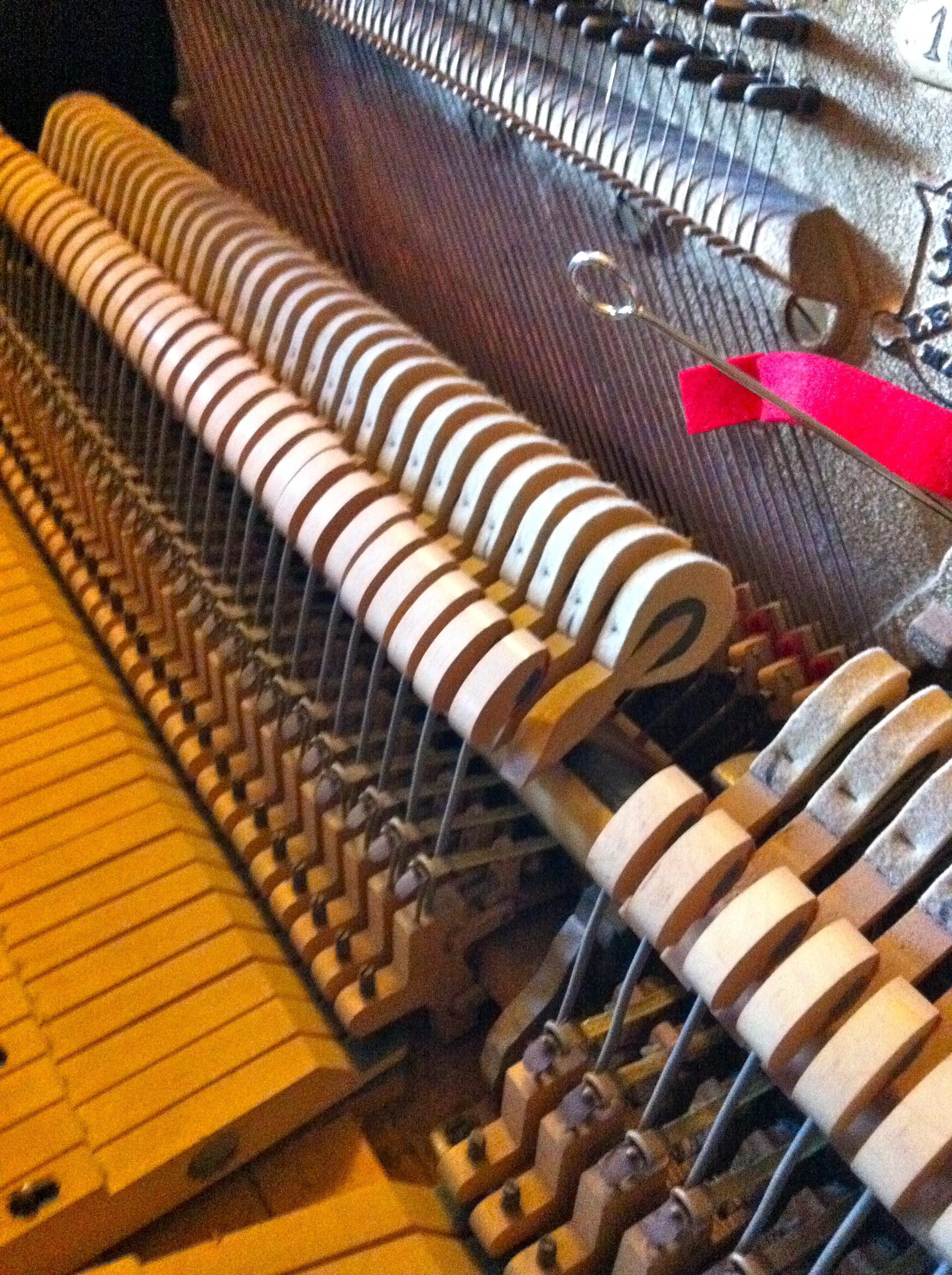 The Wood & Brooks 90-degree inverted action was an unusual upright piano action that had grand-style hammers and back checks.